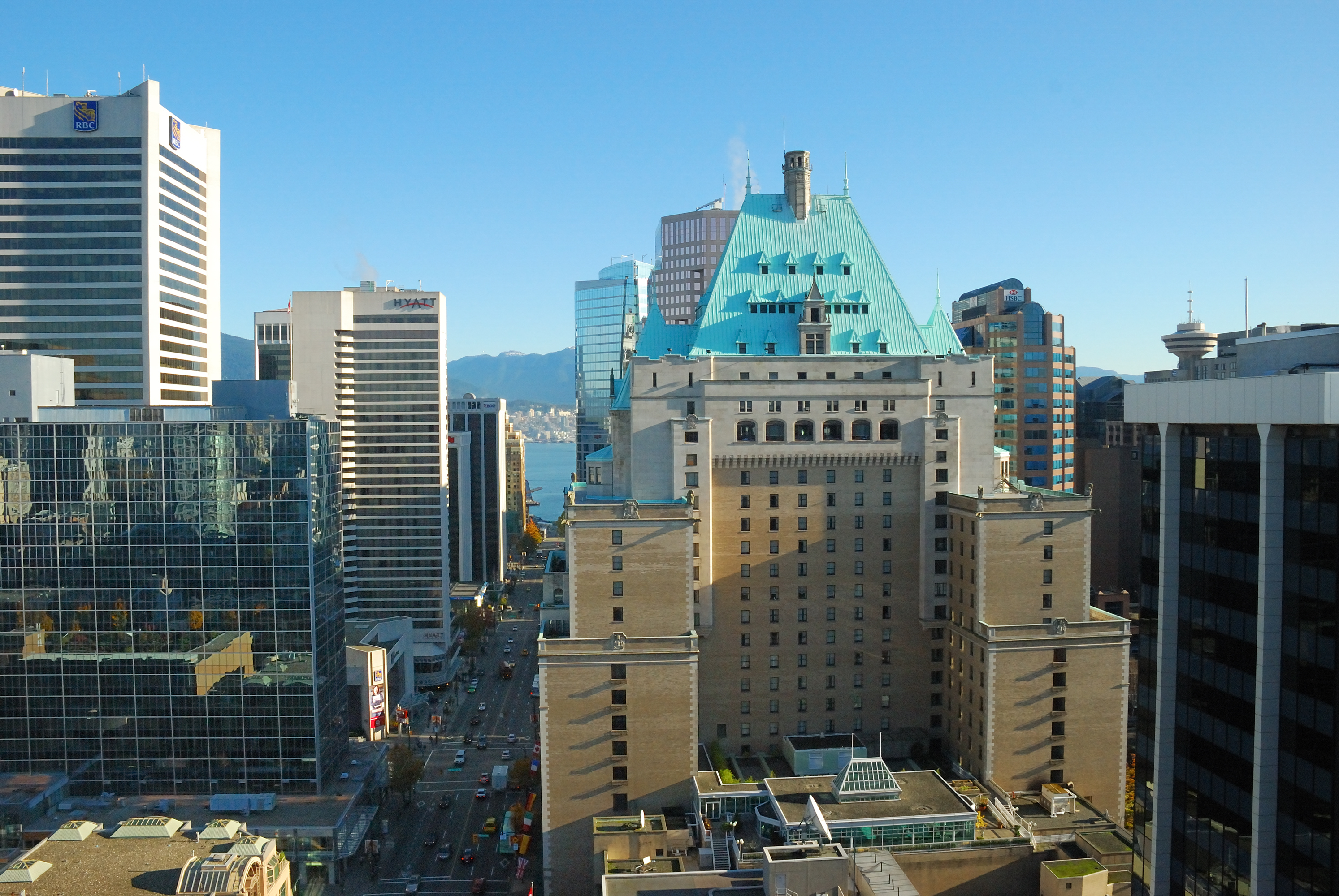 Vancouver : Vancouver Hotel (British Columbia, Canada). Translations in other languages are welcome.